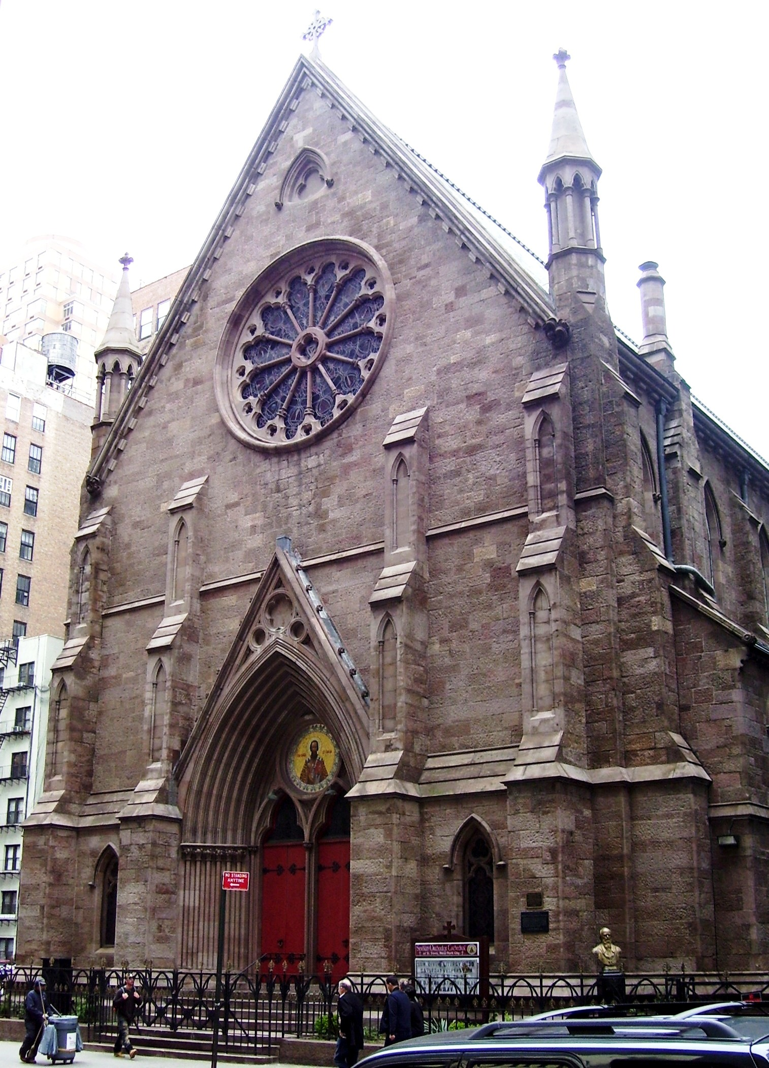 The Serbian Orthodox Cathedral of St. Sava at 25 West 25th Street between Broadway and Sixth Avenue in the Nomad neighborhood of Manhattan, New York City, was built in 1850-1855 as Trinity Chapel, designed by Richard Upjohn in Gothic Revival style. In 1942 it was sold to become the Serbian Orthodox Cathedral of St. Sava. A bomb that exploded nearby in 1973 destroyed some of the stained-glass windows, which were replace with Byzantine-style windows commissioned by the church. (Sources: AIA Guide to NYC (4th ed.), Guide to NYC Landmarks (4th ed.) and From Abyssinian to Zion (2004))